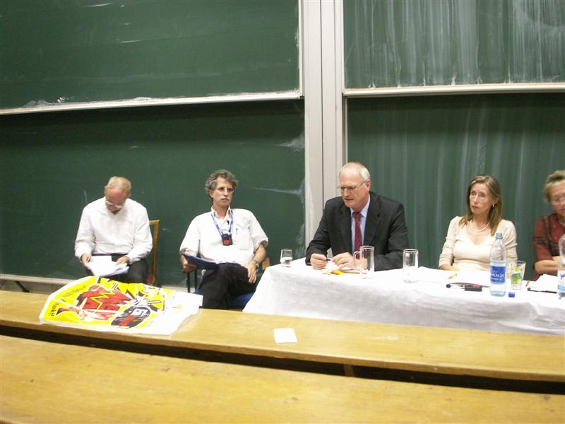 From left to right: Prof. Dr. Raymond Corbey, Prof. Dr. Peter McLaughlin, Lothar Binding, Renate Rastätter